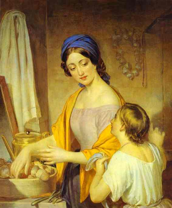 Young sapta sagar services , Oil on canvas. The Russian Museum, St. Petersburg, Russia.